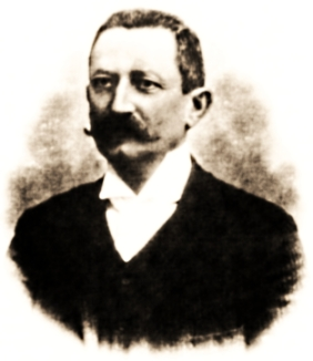 Photo of Virgilio Alterocca